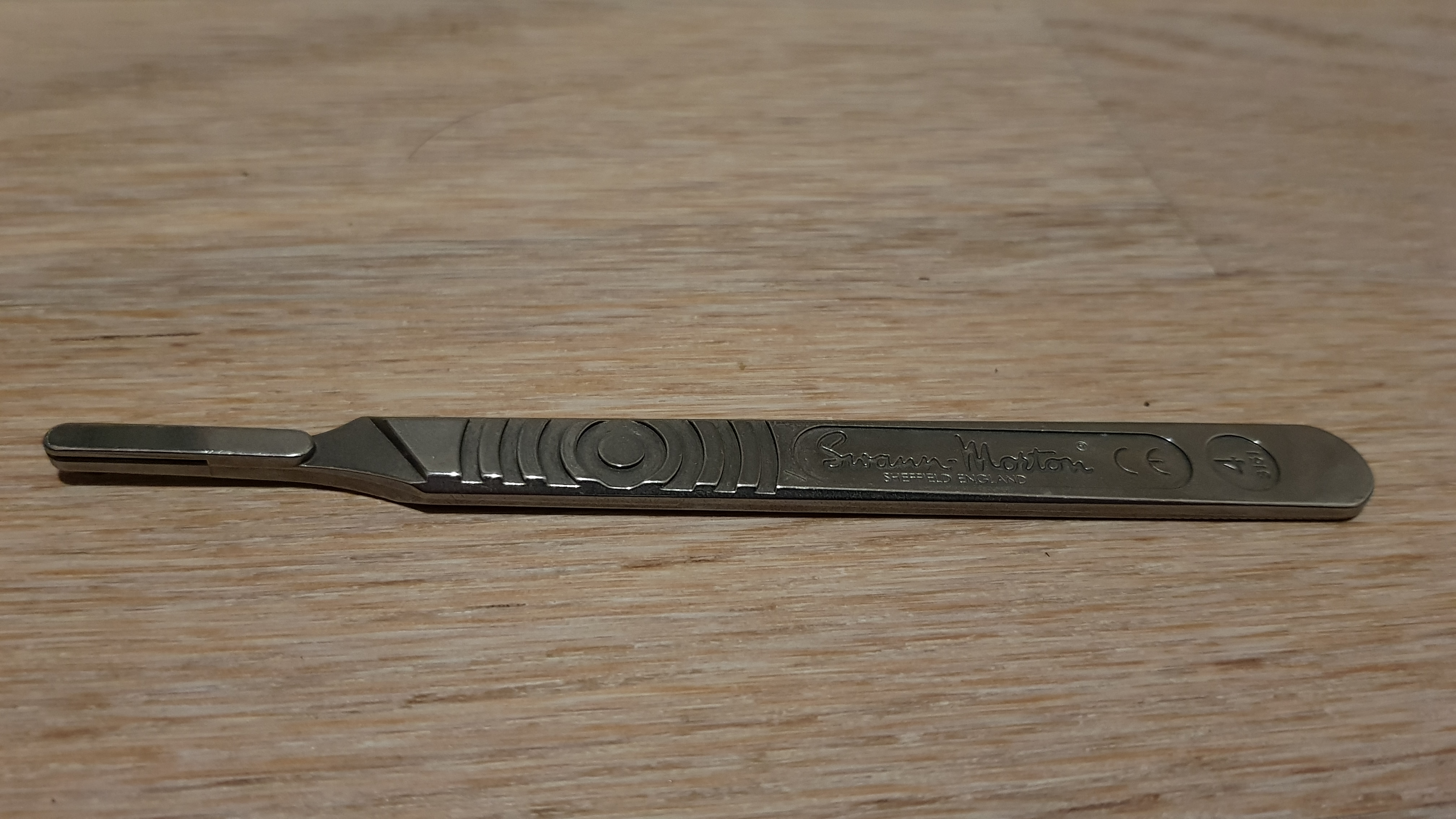 Bisturi Swann-Morton model 3